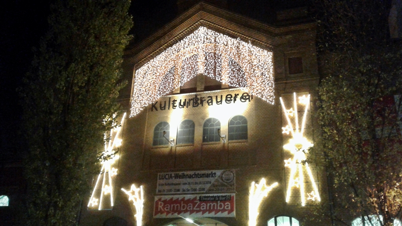 Illuminated entrance to the Lucia Christmas Market in Berlin-Prenzlauer Berg